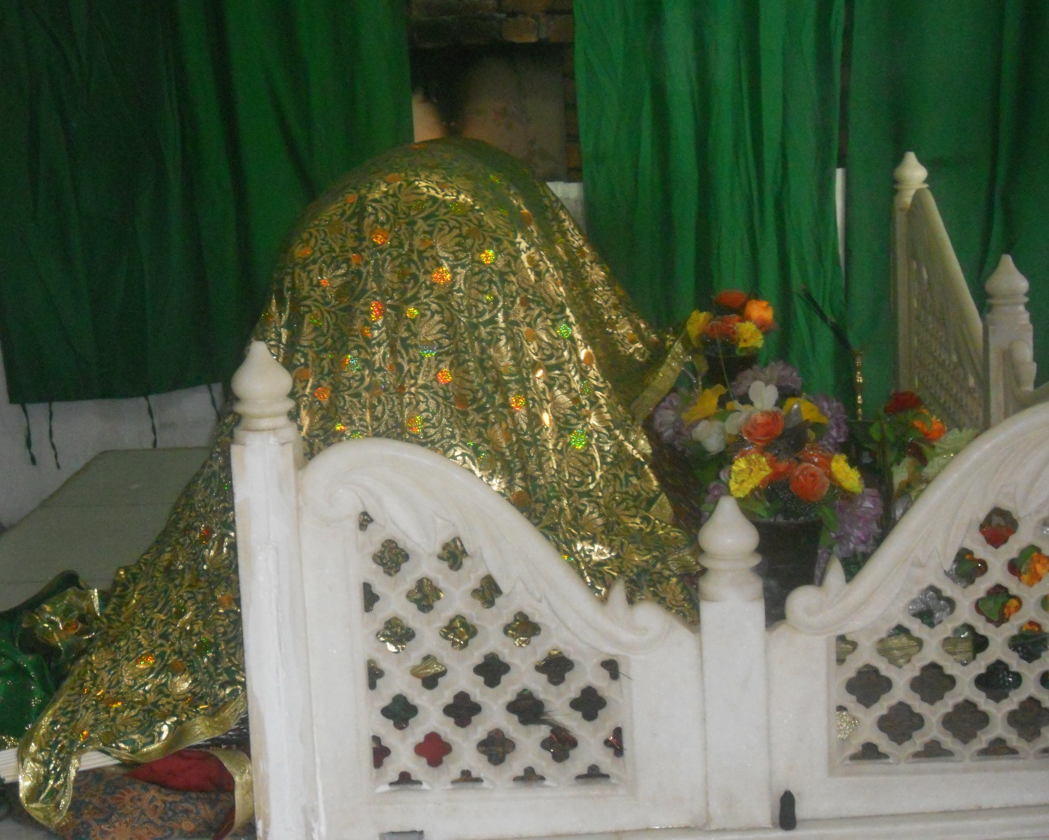 Mausoleum - Dargah of Pir Buddhan Shah located at Kiratpur Sahib. Majhar of Pir Ji